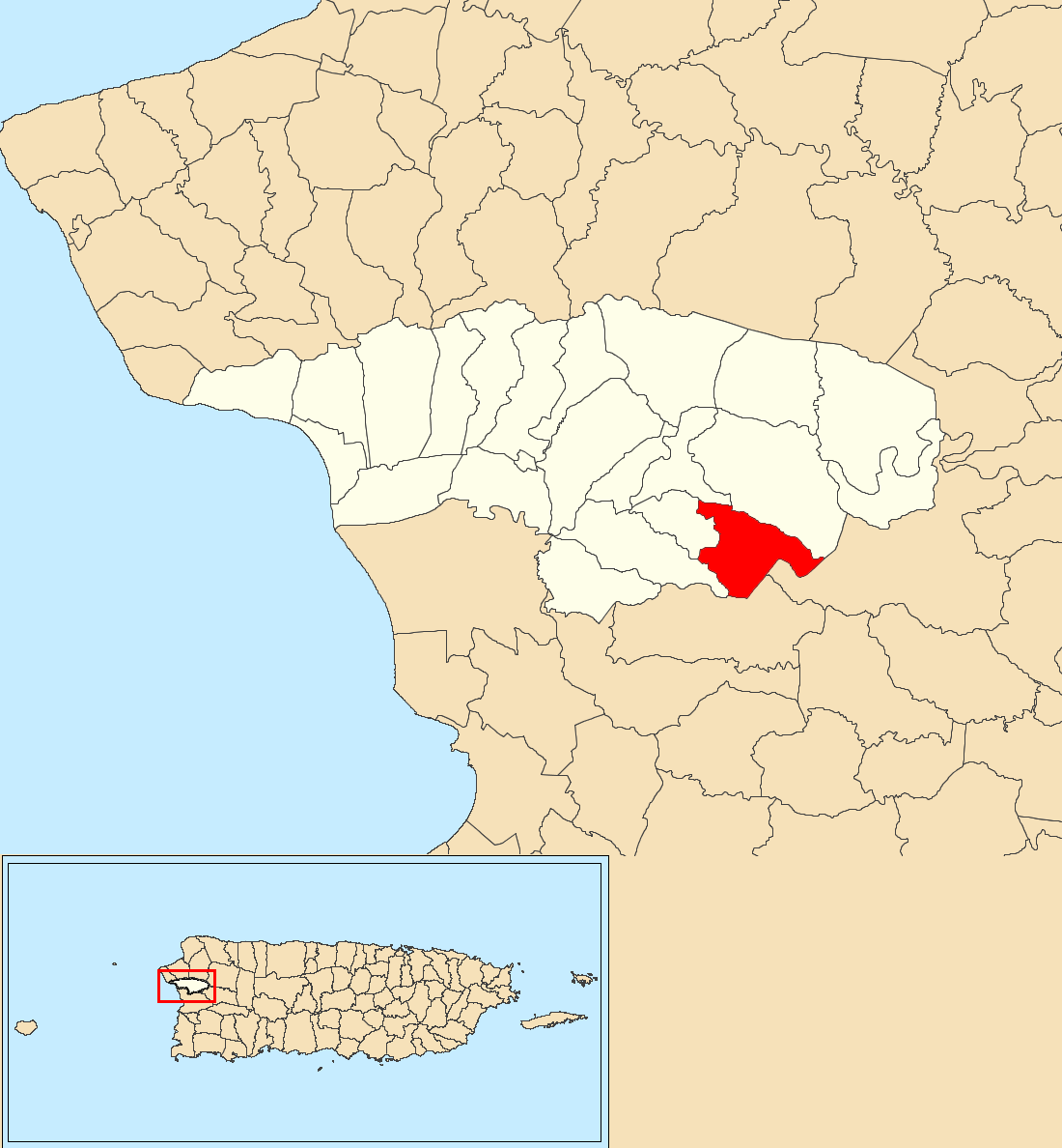 Casey Arriba, Añasco, Puerto Rico locator map